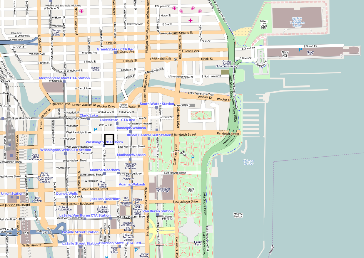 Streetmap depicting Block 37 This map may be incomplete, and may contain errors. Don't rely solely on it for navigation.